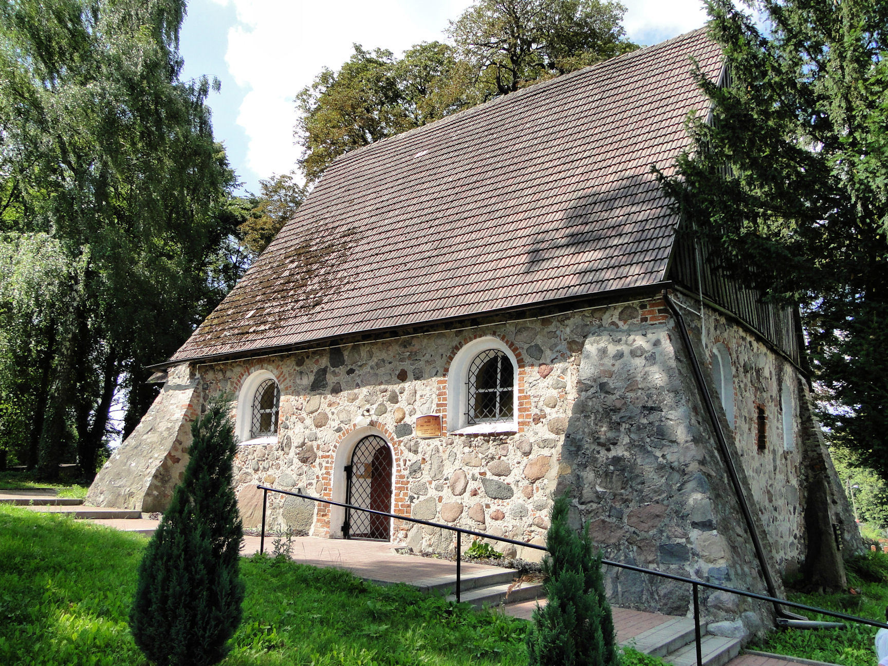 The stone Church of Saint Matthew in Poland. Dobieszewo